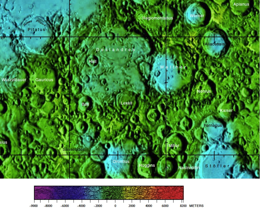 Part of the USGS near side lunar chart